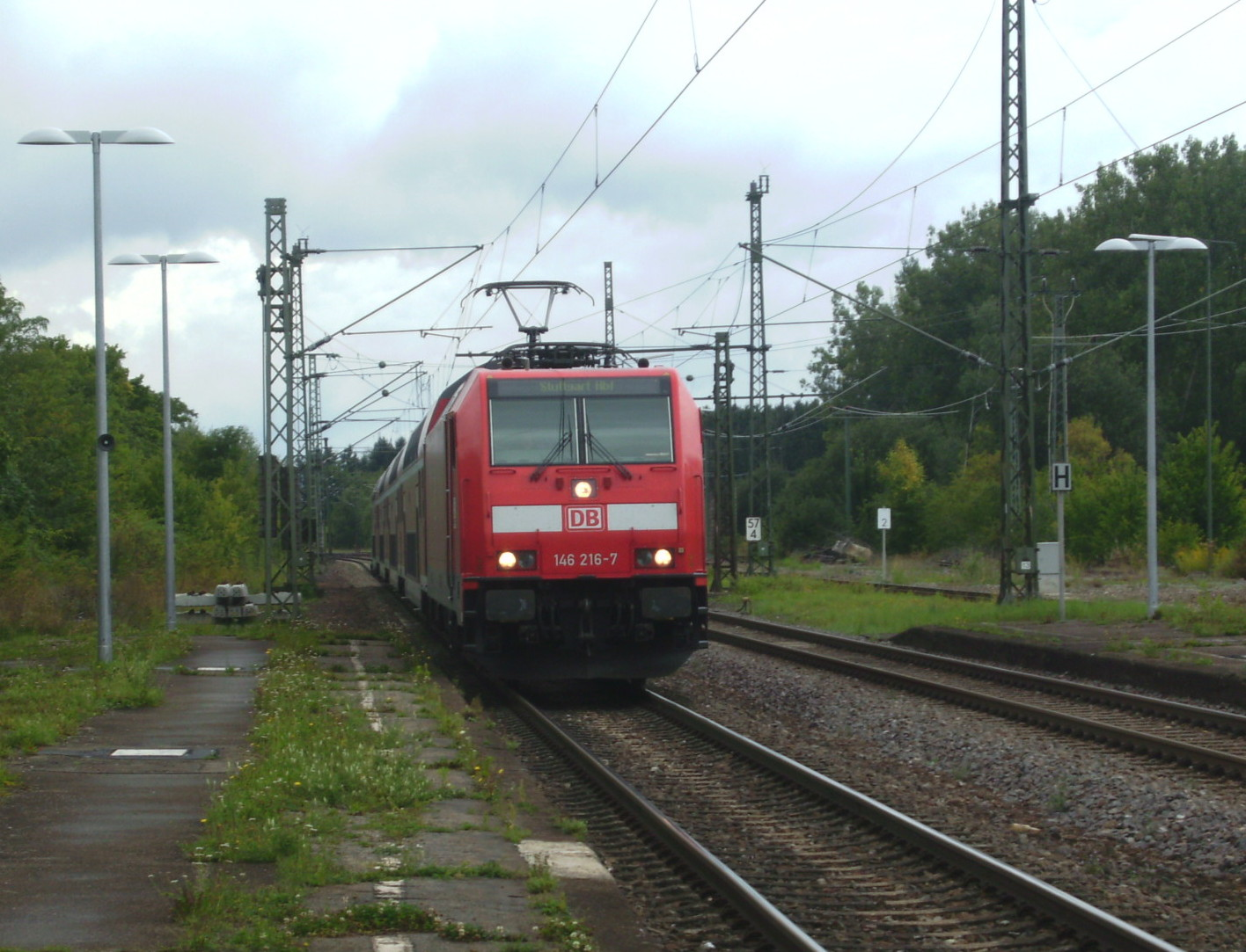 Regional-Express Singen-Stuttgart fährt in den Bahnhof Eutingen im Gäu ein